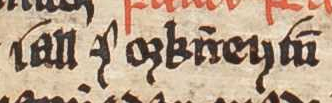 Excerpt from folio 101v of GKS 1005 fol (Flateyarbók): "jarl í Orkneyjum".